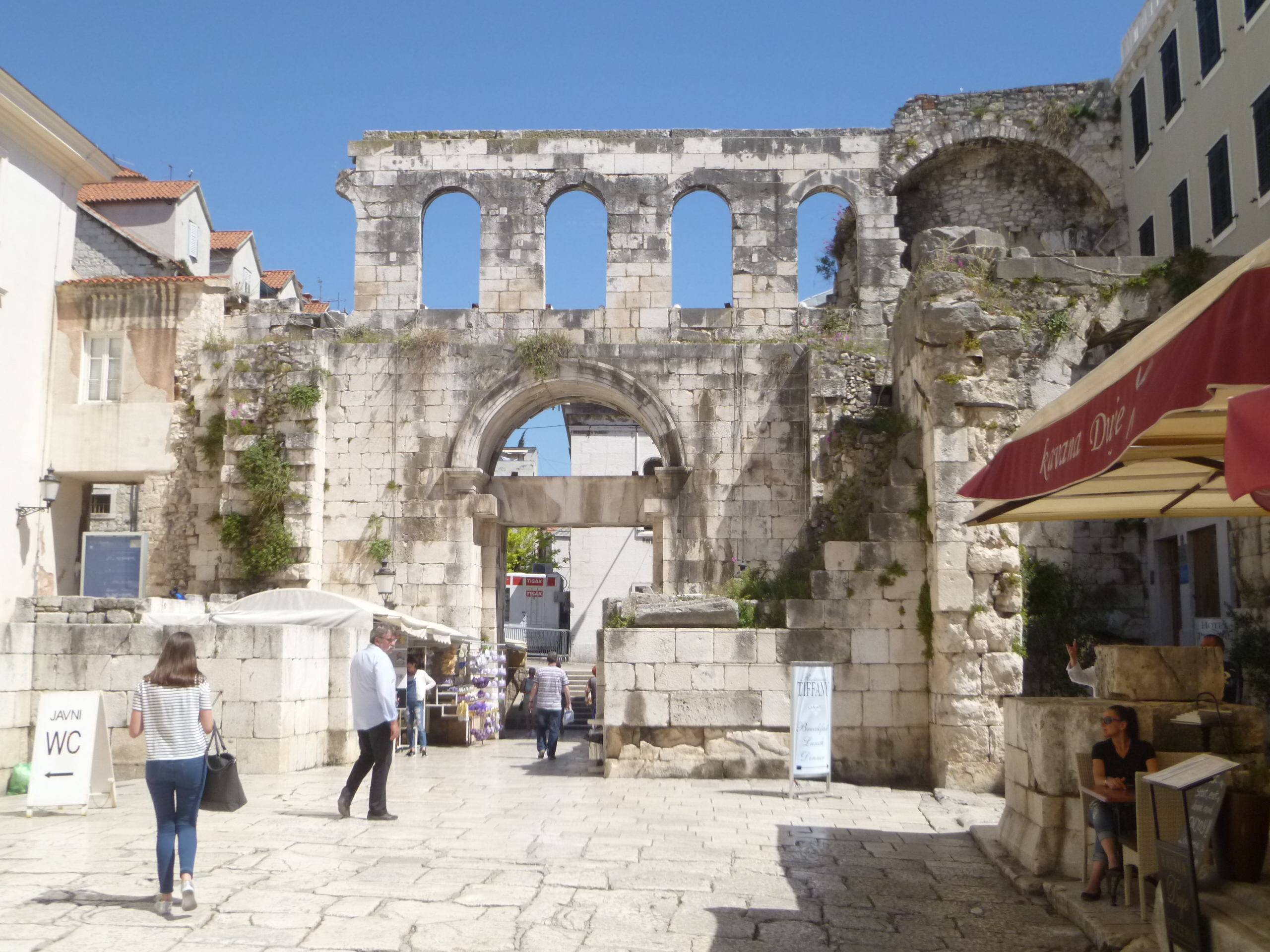 Silver Gate of the Diocletian's Palace, Split, Croatia